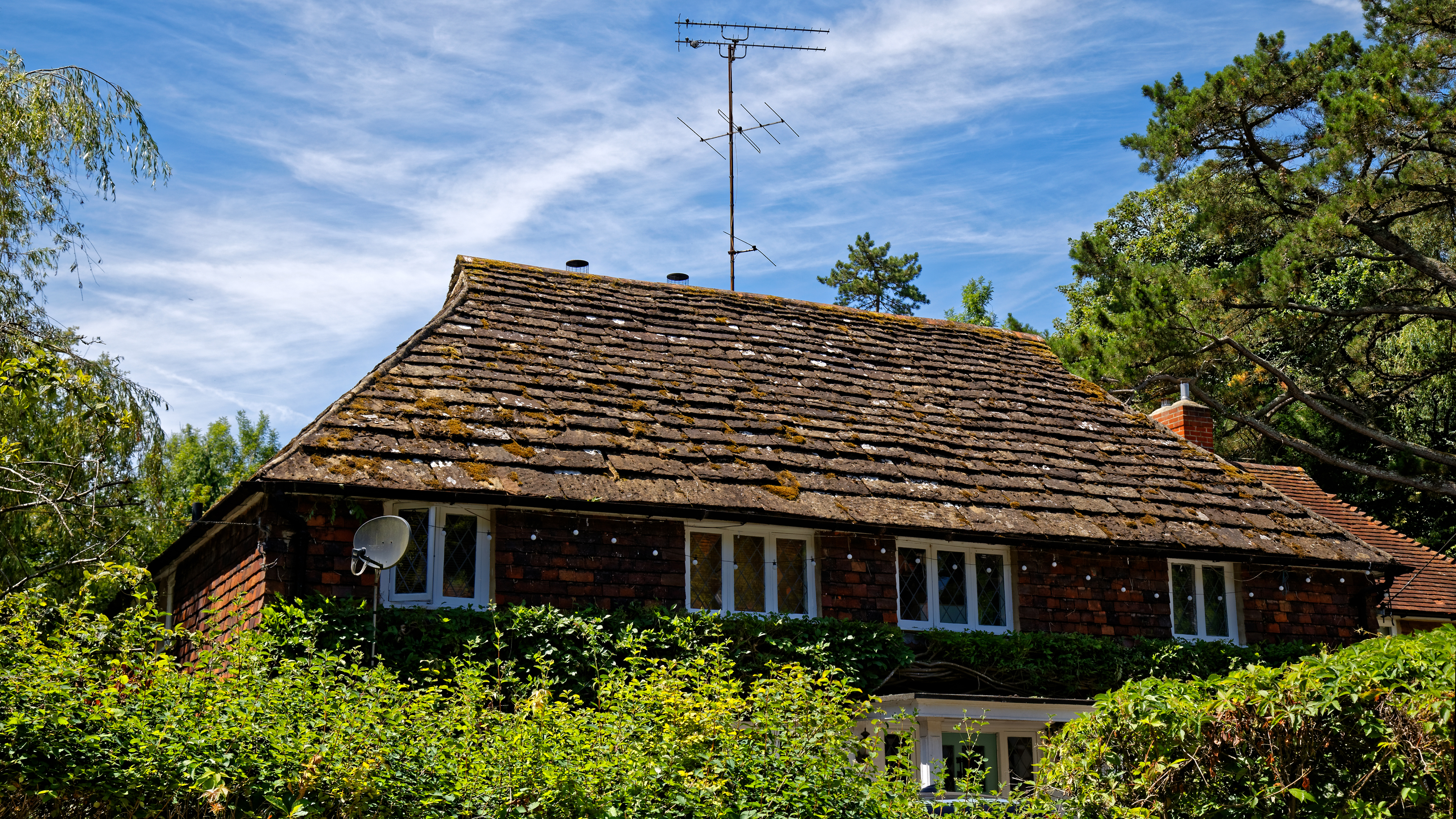 'The Dell', Grade II listed cottage with Horsham stone roof slab tiles, on Nuthurst Street in Nuthurst village, West Sussex, England.Camera: Canon EOS 6D with Canon EF 24-105mm F4L IS USM lens.Software: RAW file lens-corrected and optimized with DxO OpticsPro 11 Elite and Viewpoint 2, and further optimized with Adobe Photoshop CS2.